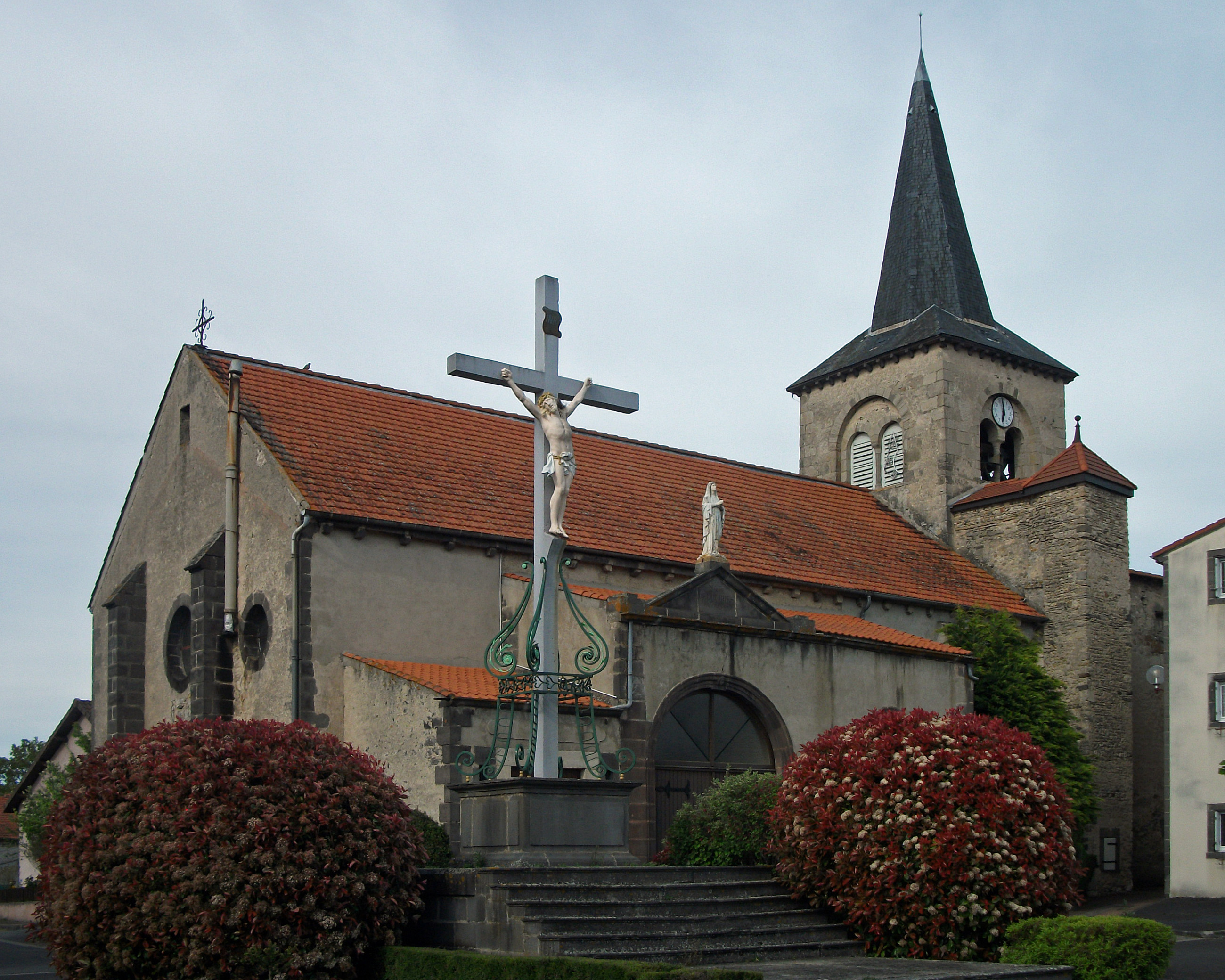 Church in former commune of Cellule, Puy-de-Dôme [10808 retouched]